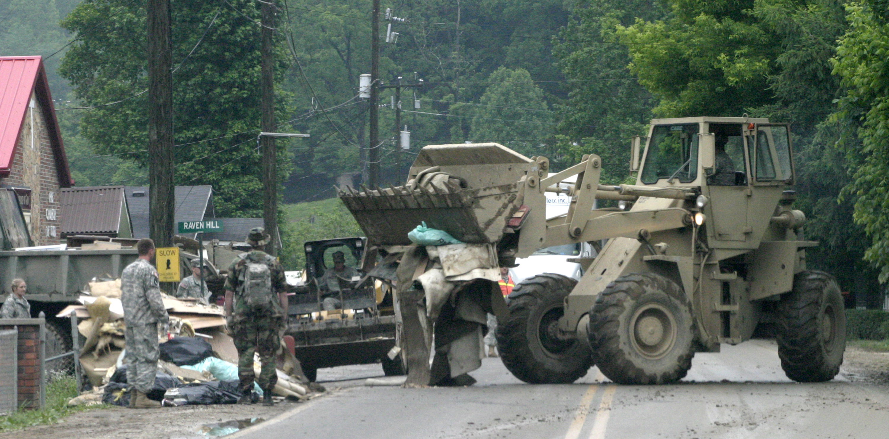 Hanover, WV, May 29, 2009 -- West Virginia National Guard troops pick up debris from the side of the highway with construction equipment. The debris was left from early May flooding in Hanover along US Hgwy 52. Louis Sohn/FEMA